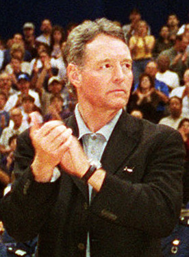 Secretary of Defense William S. Cohen (left) joins San Antonio Spurs' Chairman Peter Holt (2nd from left) in honoring Medal of Honor recipients Jose M. Lopez, Lucien Adams, and Richard Rocco during half-time of the March 2, 2000, game against the Minnesota Timberwolves in San Antonio, Texas.